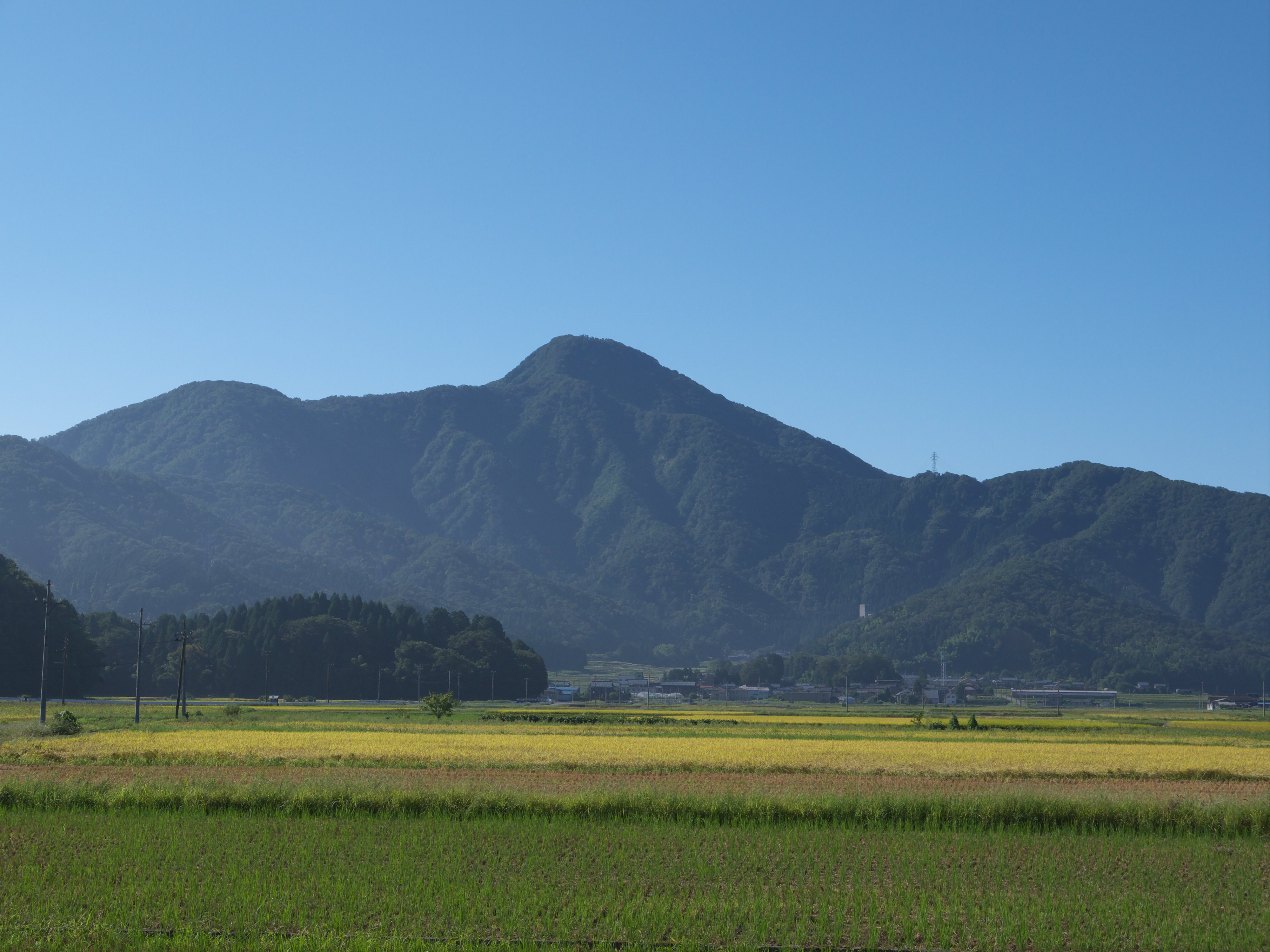 Mount Hino (Hinosan) in Fukui Prefecture, Japan